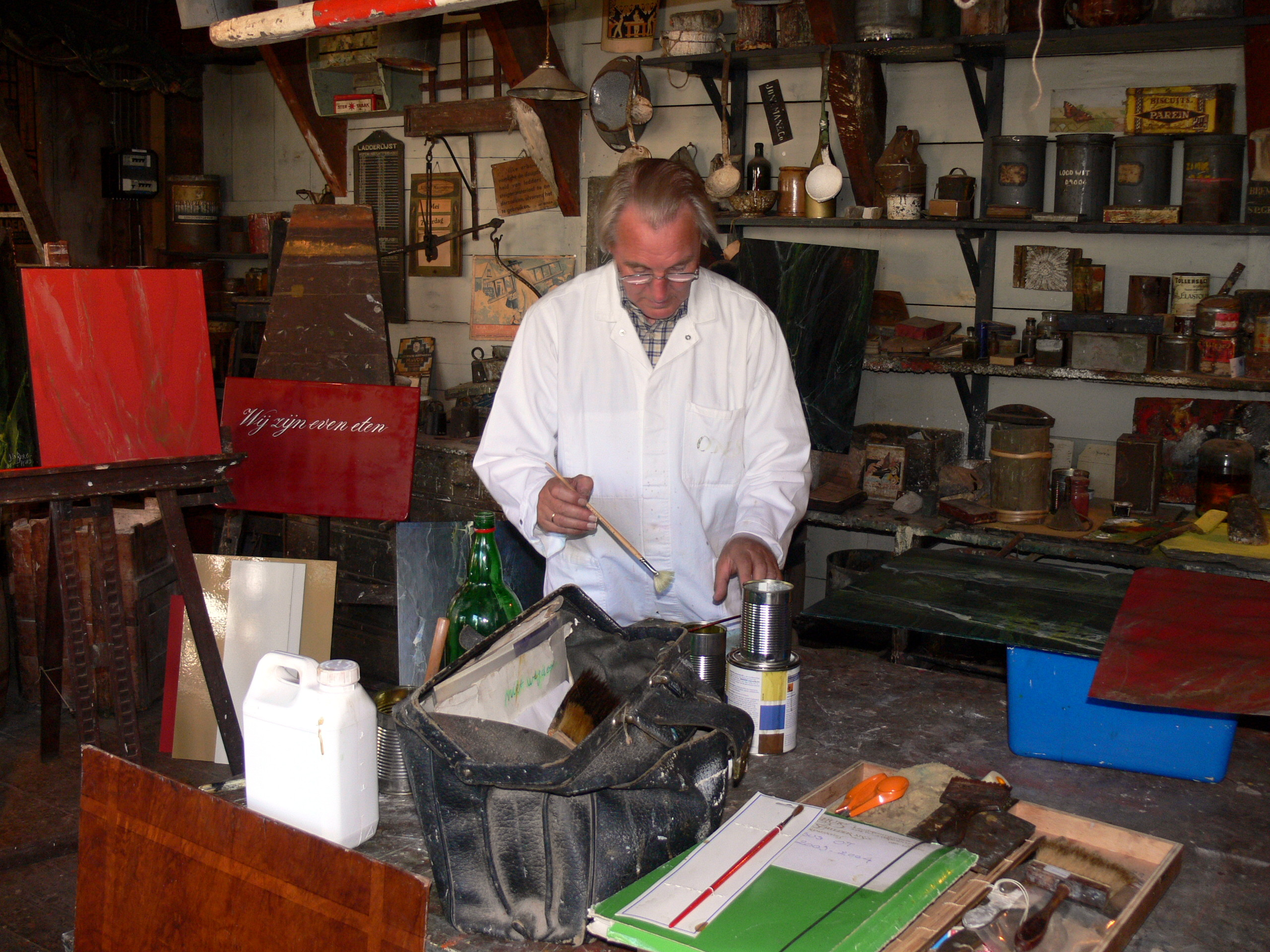 Zuiderzeemuseum. Painter in his city-shop